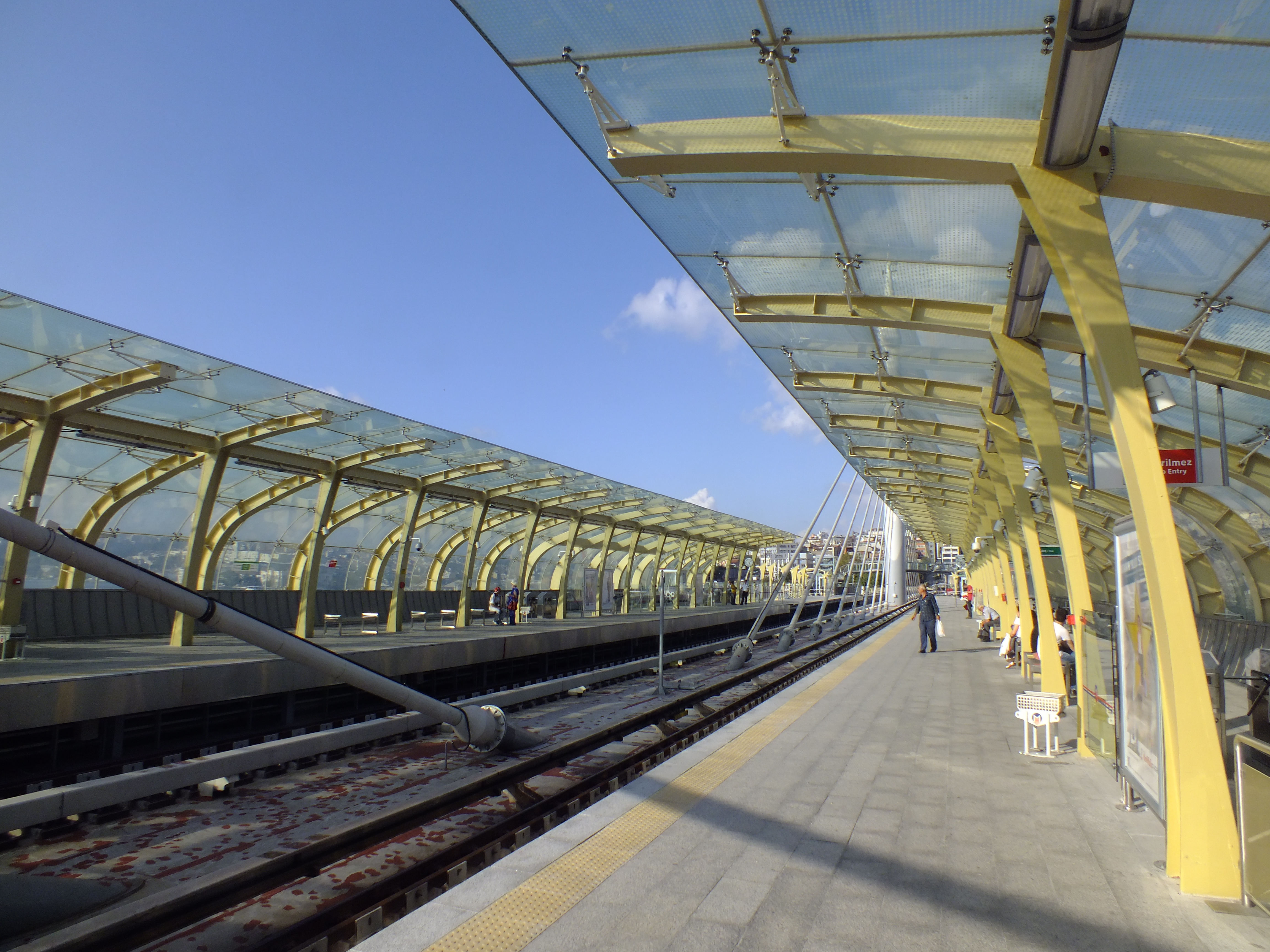 View from Haliç station on the Istanbul metro.